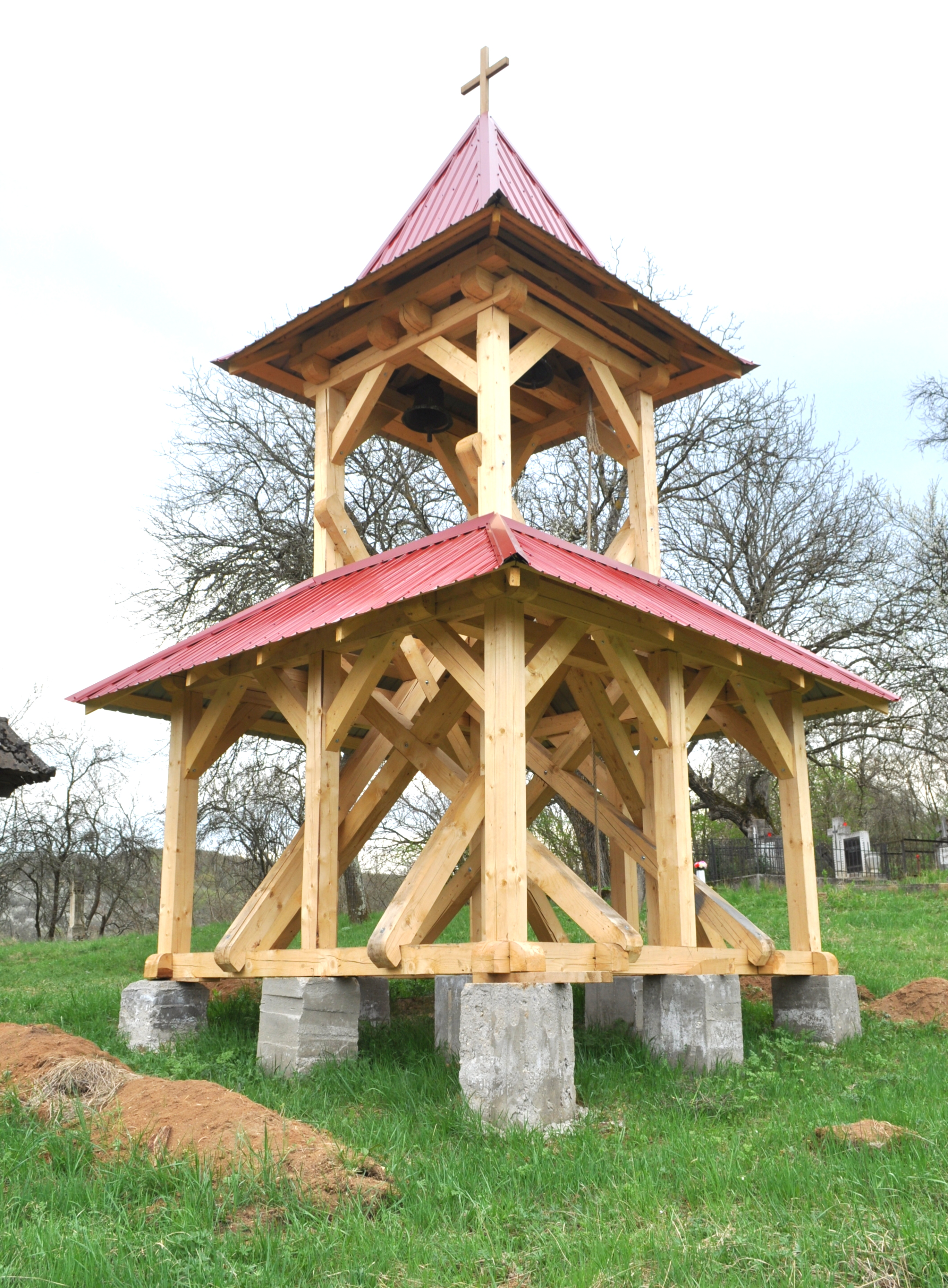 Wooden church in Mierţa, Sălaj county, Romania